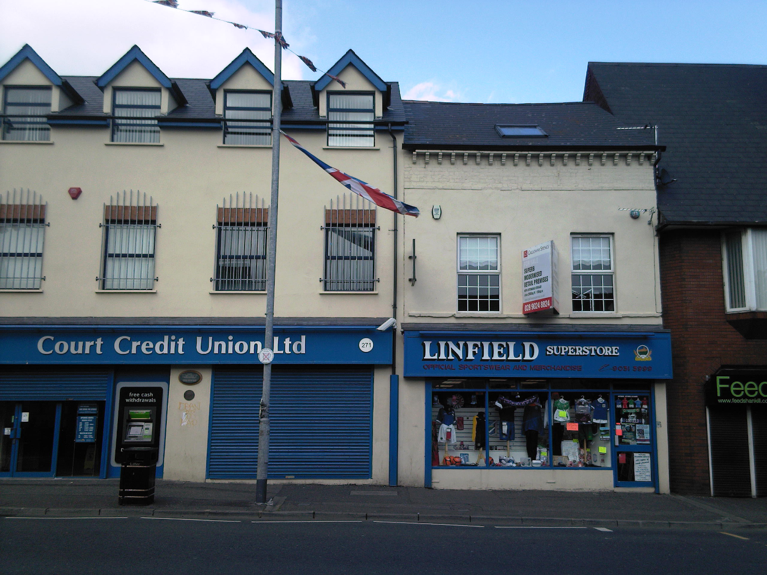 Row of shops on the Shankill Road, Belfast and the scene of the 1993 bombing